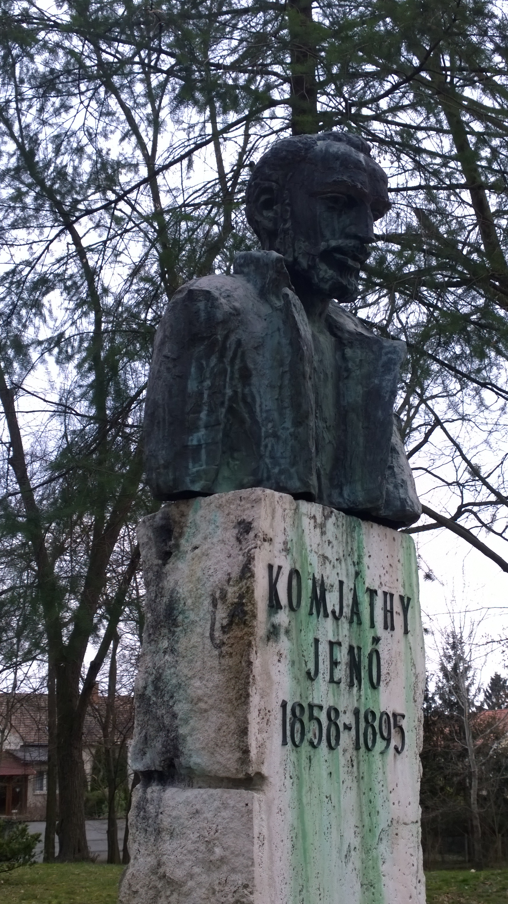 Sculpture of Jenő Komjáthy (1858–1895) poet in Balassagyarmat. Sculptor: Sándor Györfi (*1951) in 1981